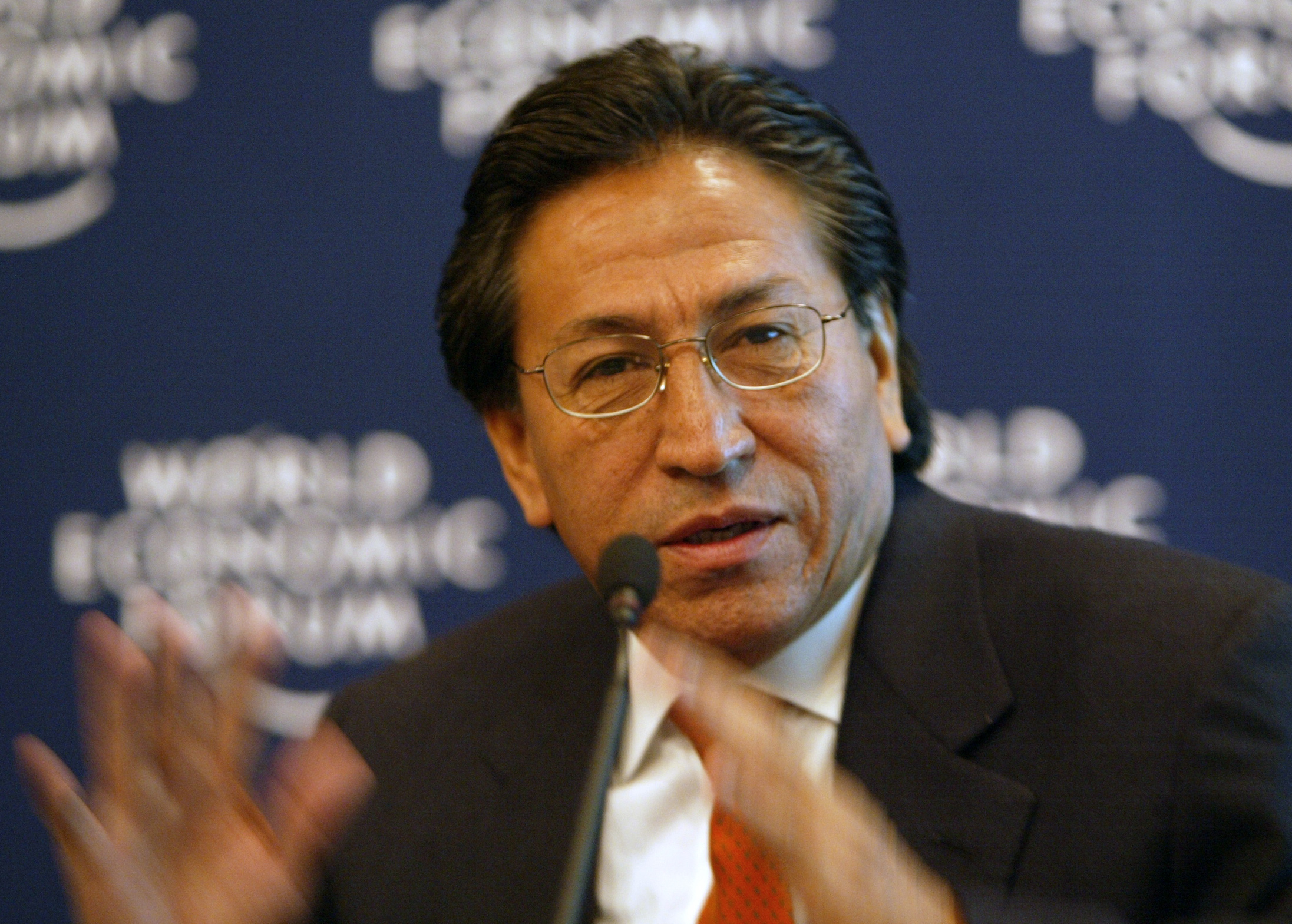 DAVOS,24JAN03 - Alejandro Toledo, President of Peru speaks during the session The Challenge for Latin America at the 'Annual Meeting 2003' of the World Economic Forum in Davos/Switzerland, January 21, 2003.